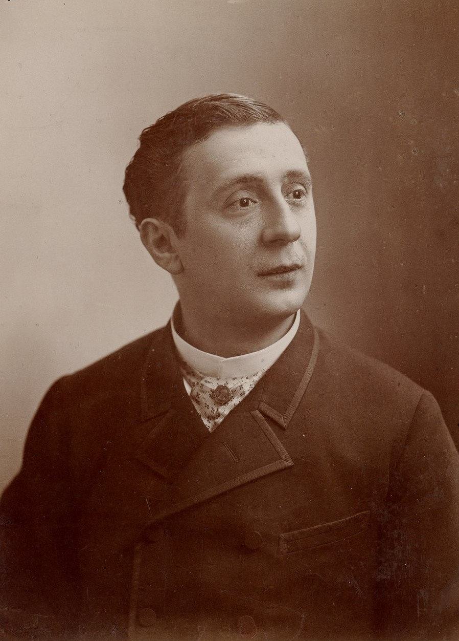 Gabriel Valentin Soulacroix by Nadar